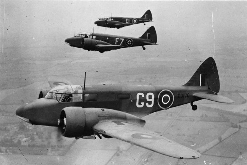 Royal Air Force Flying Training Command, 1940-1945. Airspeed Oxford Mark IIs (ED170 'G9' nearest), of No. 6 (Pilots) Advanced Flying Unit based at Little Rissington, Gloucestershire, flying in starboard echelon formation.